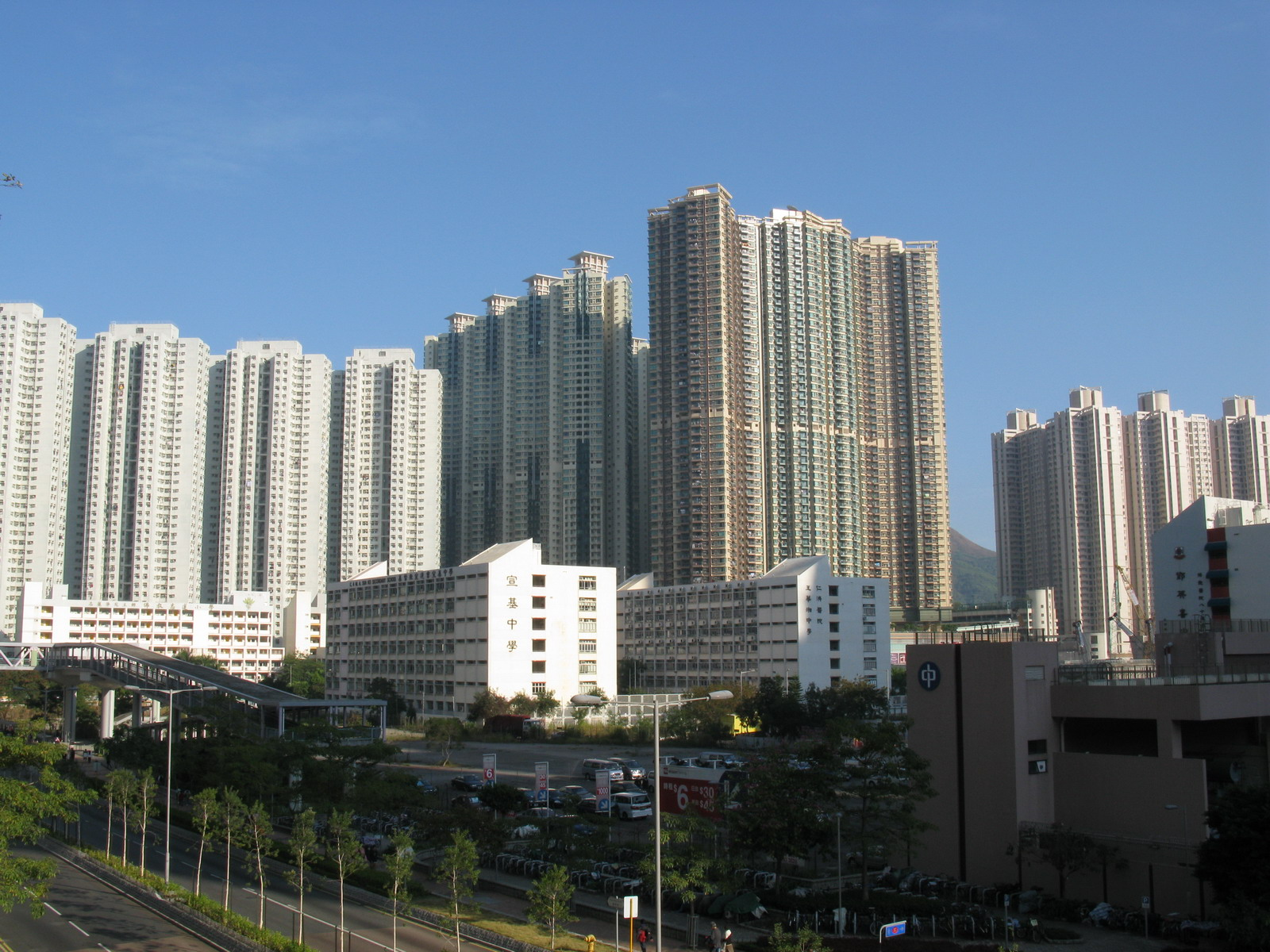 Tseung Kwan O Town Centre, also known as "Sheung Tak"